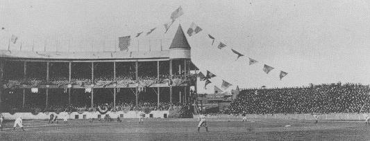 Taken from Diamonds, by Michael Gershman, p.58. This is the most common, if not the only, illustration of Eastern Park in Brooklyn.